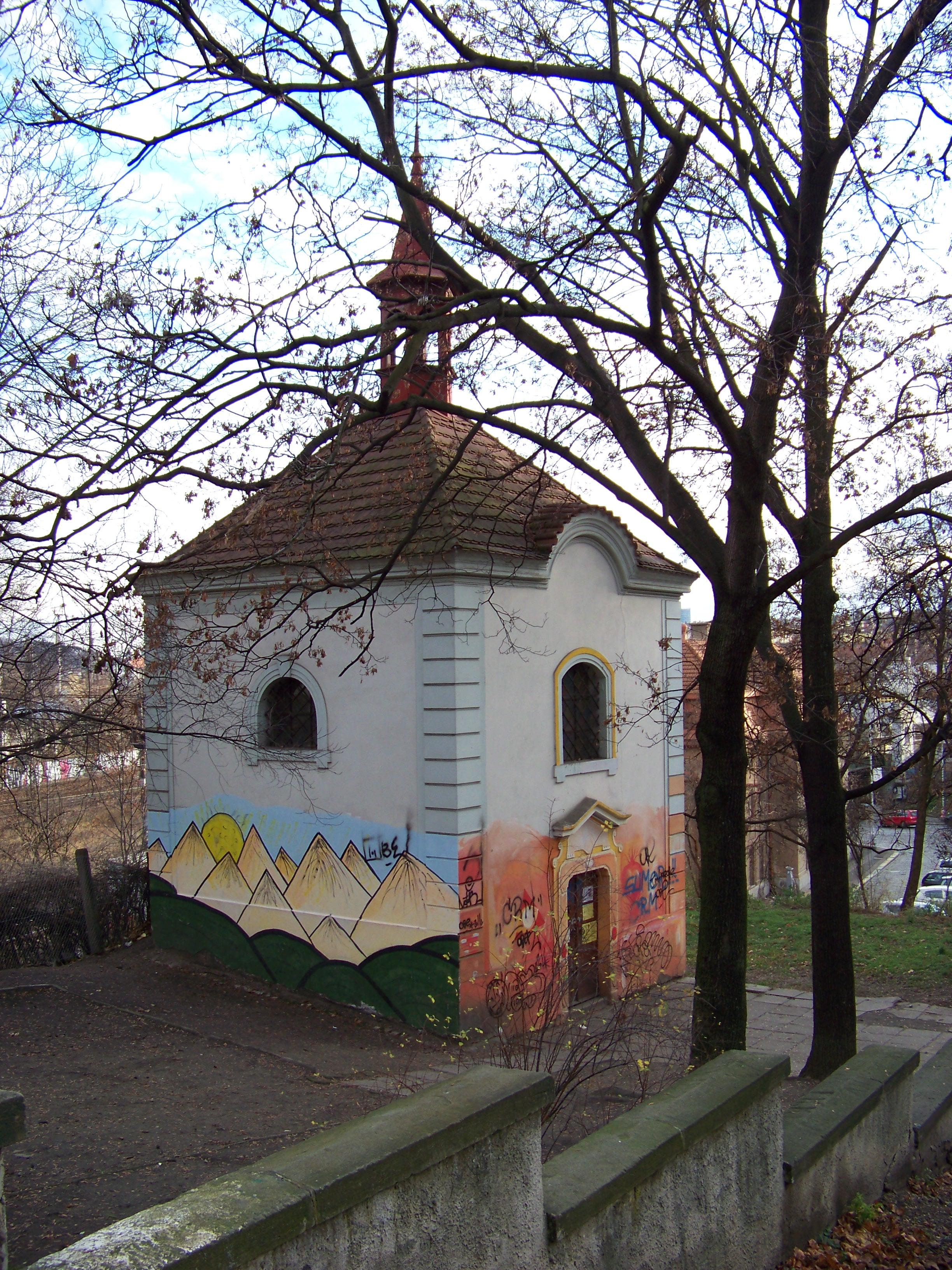 Prague-Vinohrady, the Czech Republic. Holy Family chapel, Pod Nuselskými schody street. - OpenStreetMap(Info)